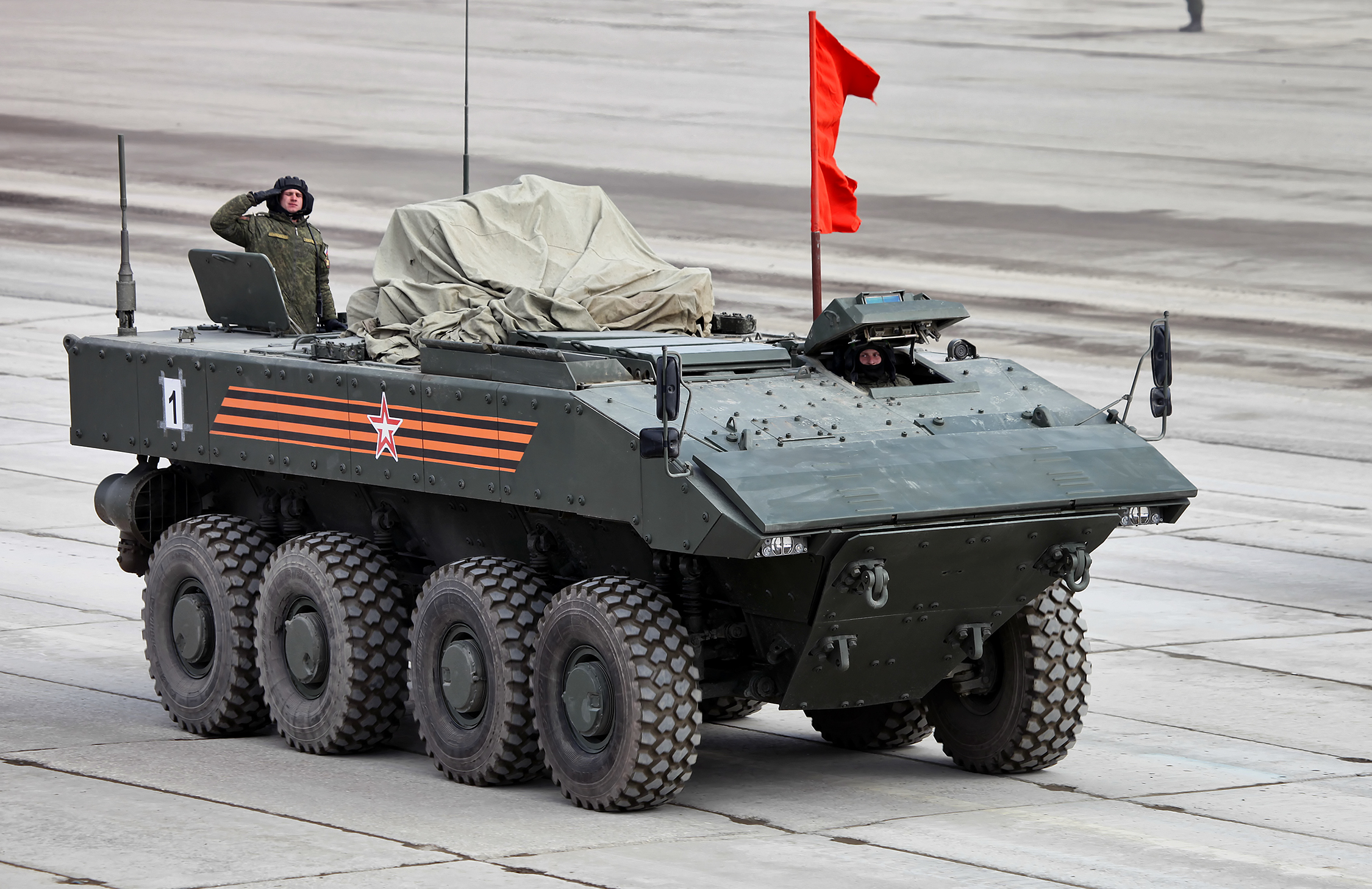 APC VPK-7829 Bumerang (during the first open rehearsal in Alabino)